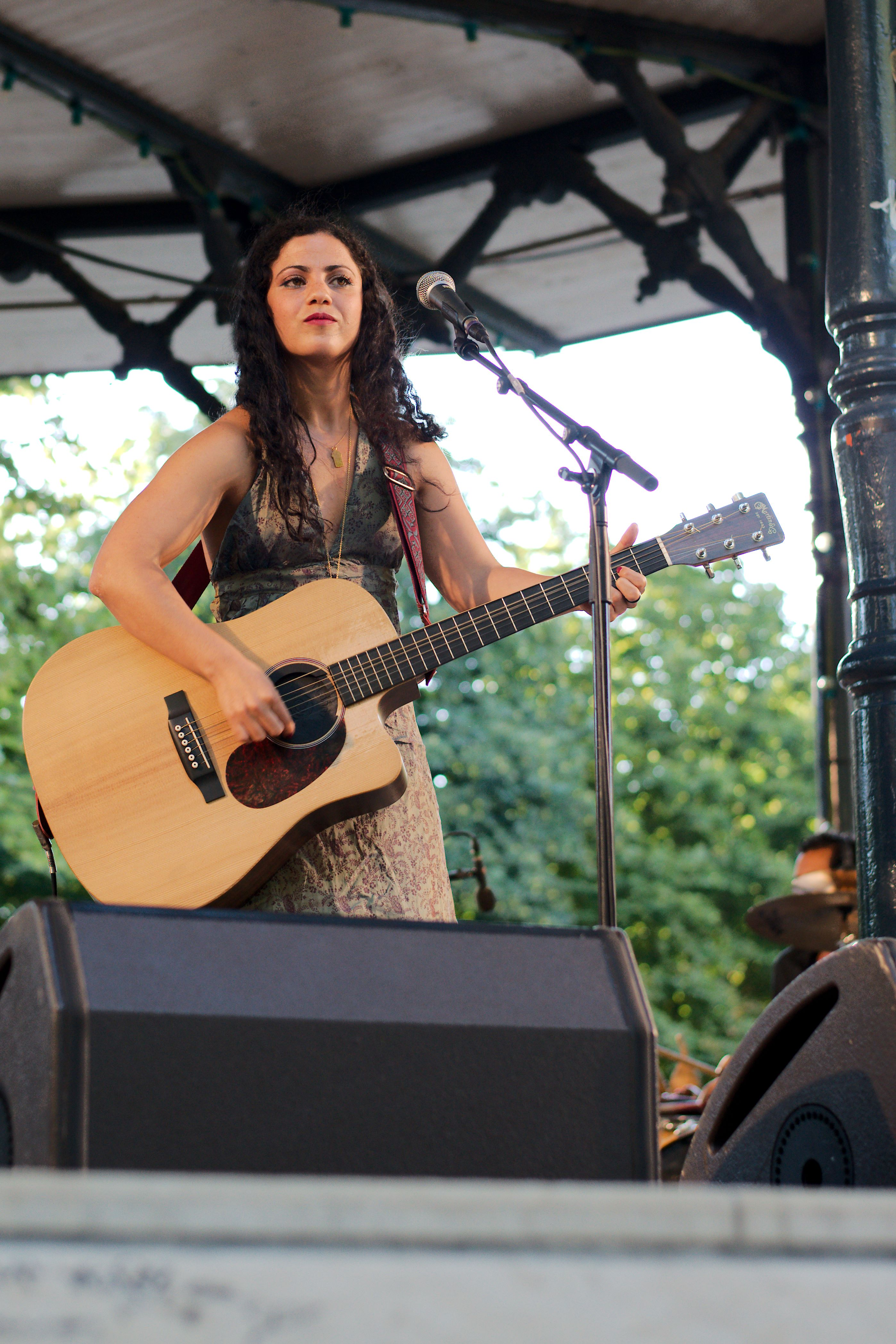 Emel Mathlouthi at Cabaret Frappé 2012.